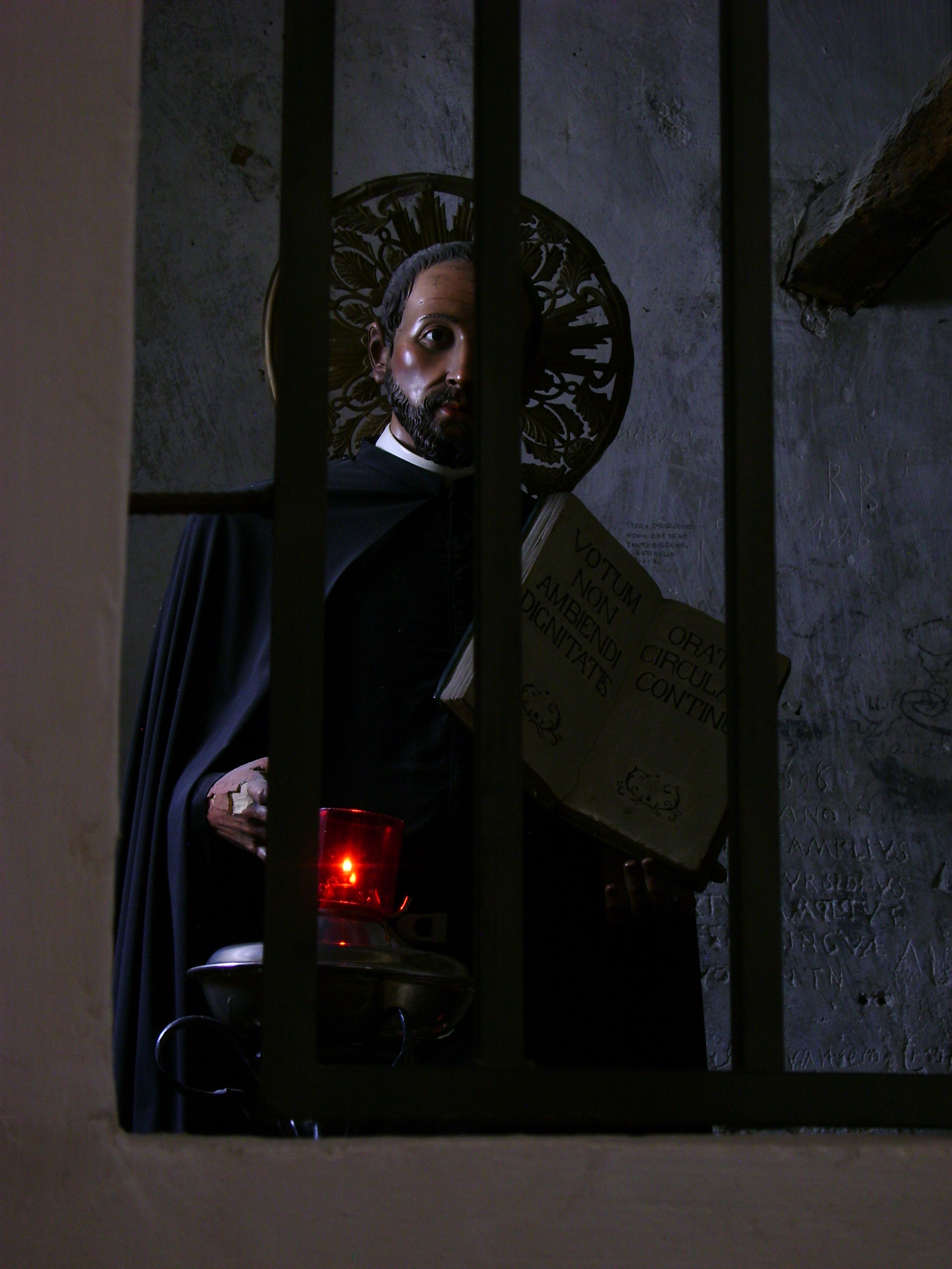 The statue of St. Francis Caracciolo in the namesake church, Villa Santa Maria, province of Chieti, Abruzzo